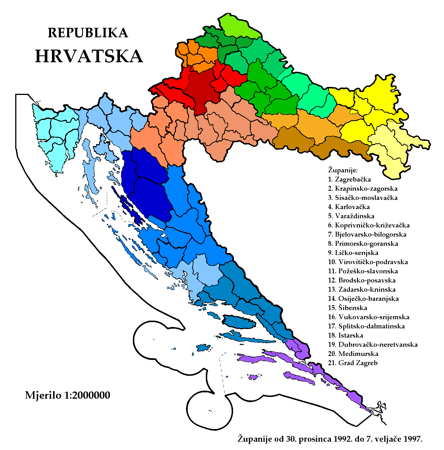 Croatian counties from 1992-12-30 to 1997-02-07